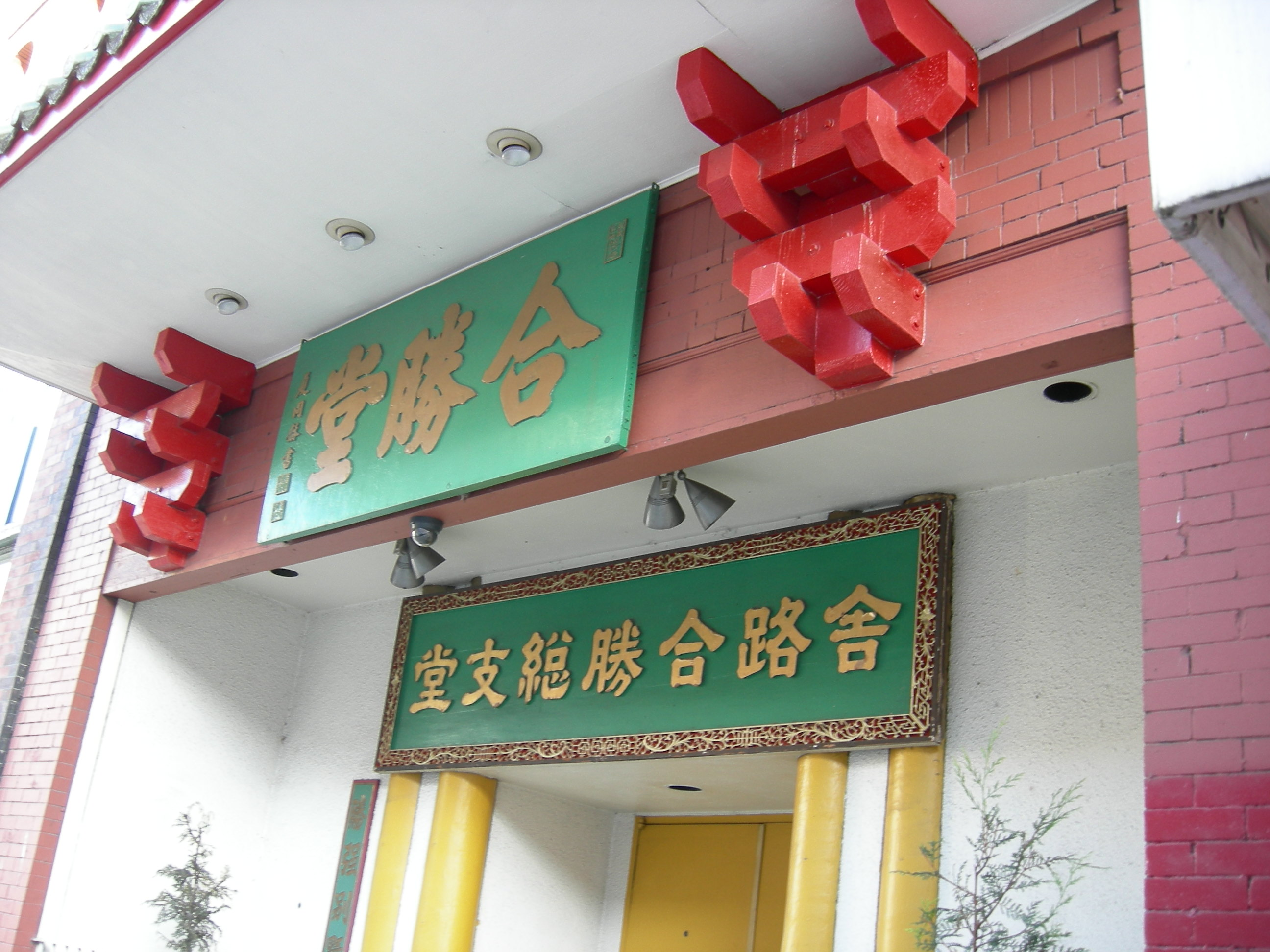 Sign over entrance of the Sing Keong Society, 512 Maynard Ave S, International District, Seattle, Washington, USA.